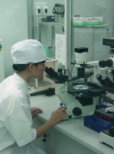 Hình PTN